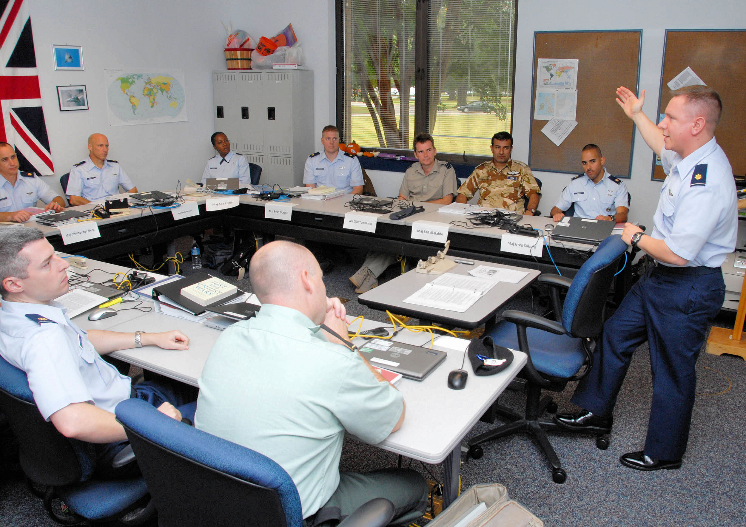 Students at the Carl A. Spaatz Center for Officer Education's Air Command and Staff College participate in a group discussion during class. ACSC is a 40-week course for majors and civilian equivalents and emphasizes critical thinking and effective communication. (U.S. Air Force photo/Bennett Rock)